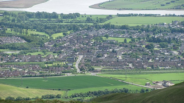 View of Tullibody and the Forth from Colsnaur Hill.